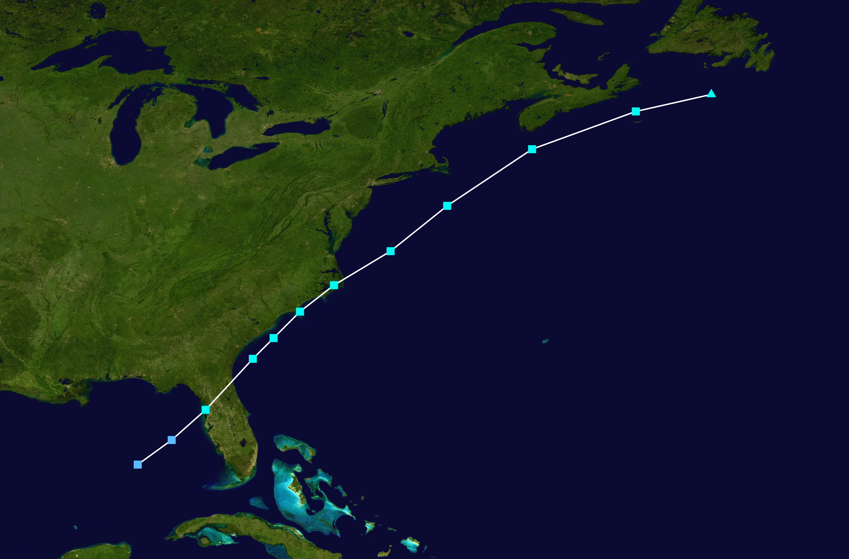 1982 Atlantic subtropical storm 1 track. Uses the color scheme from the Saffir-Simpson Hurricane Scale.